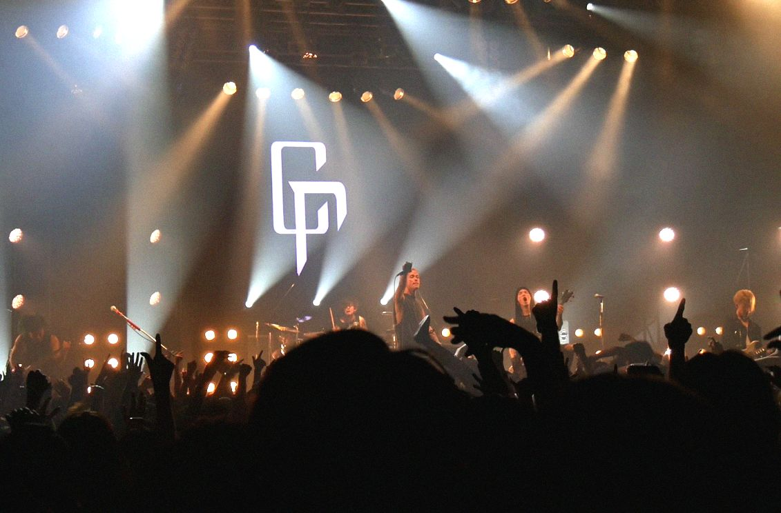 coldrain.